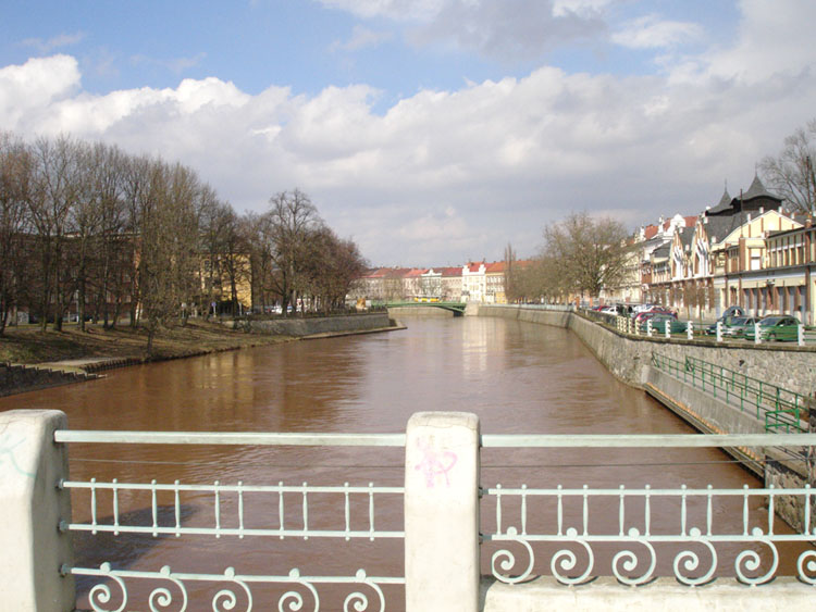 River in Hradec Králové, Czech Republic.